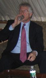 NH St. Senators, Dave Gottesman, Iris Estabrook, Sylvia Larsen, (Gov Mark Warner), Martha Fuller-Clark, Lou D'Allesandro.